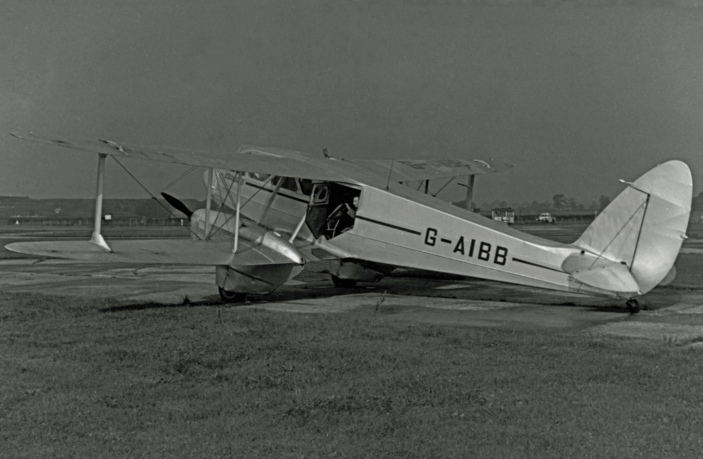 De Havilland DH.89A Dragon Rapide of Starways Ltd at Manchester Airport in 1952